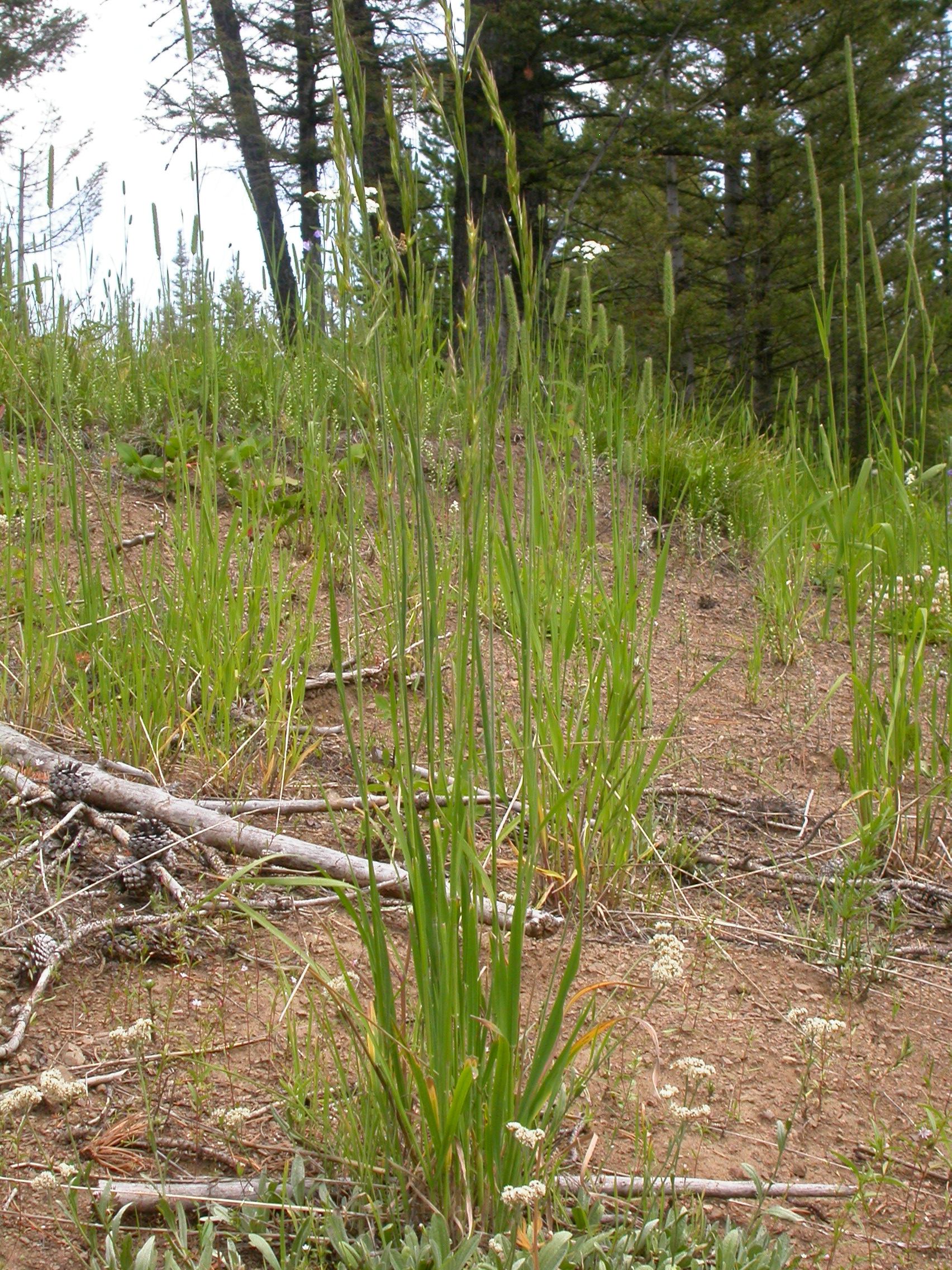 A perennial bunchgrass that commonly inhabits mountain meadows. This individual growing on a road cut was photographed to illustrate the bunched habit of this bromegrass (Phleum pratense, timothy, is growing in background.